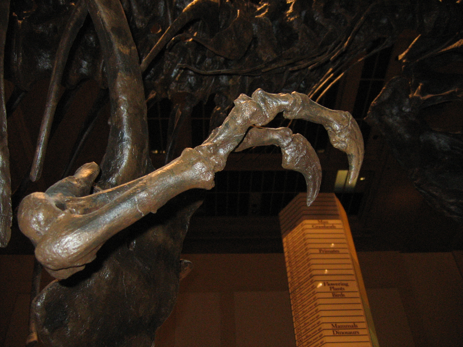 Tyrannosaurus rex fossil at the National Museum of Natural History, Washington, D.C.